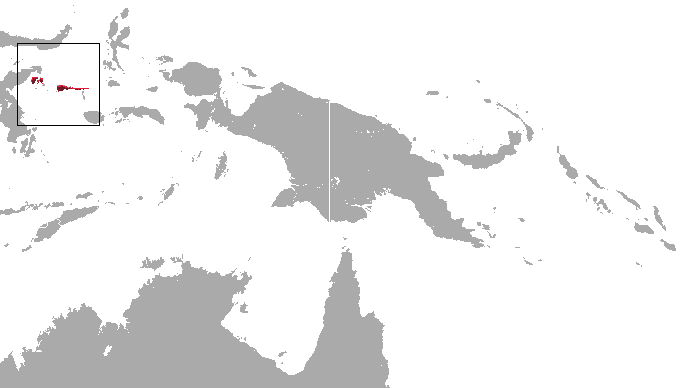 Banggai Cuscus (Strigocuscus pelengensis) range